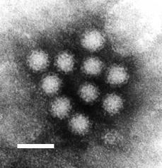 Method: Negative-stain Transmission Electron Microscopy Bar = 50 nanometers